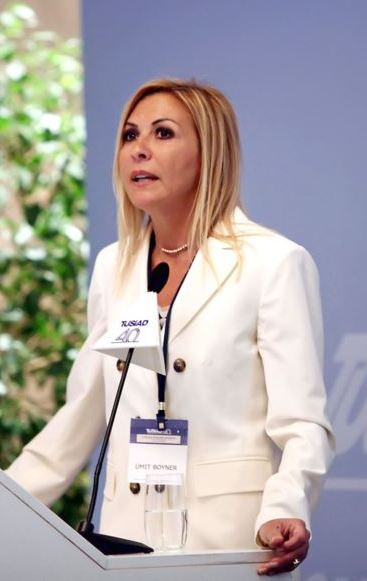 Former President of Turkish Industrialists' and Businessmen's Association, Ümit Boyner.